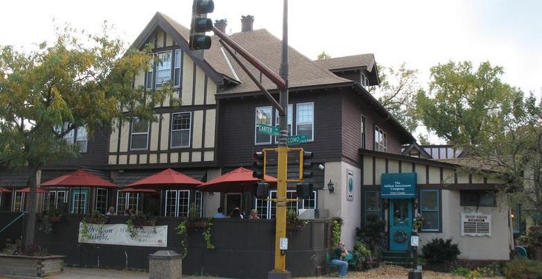 Milton Square storefronts at the corner of Como and Carter Avenues in St. Paul, MN